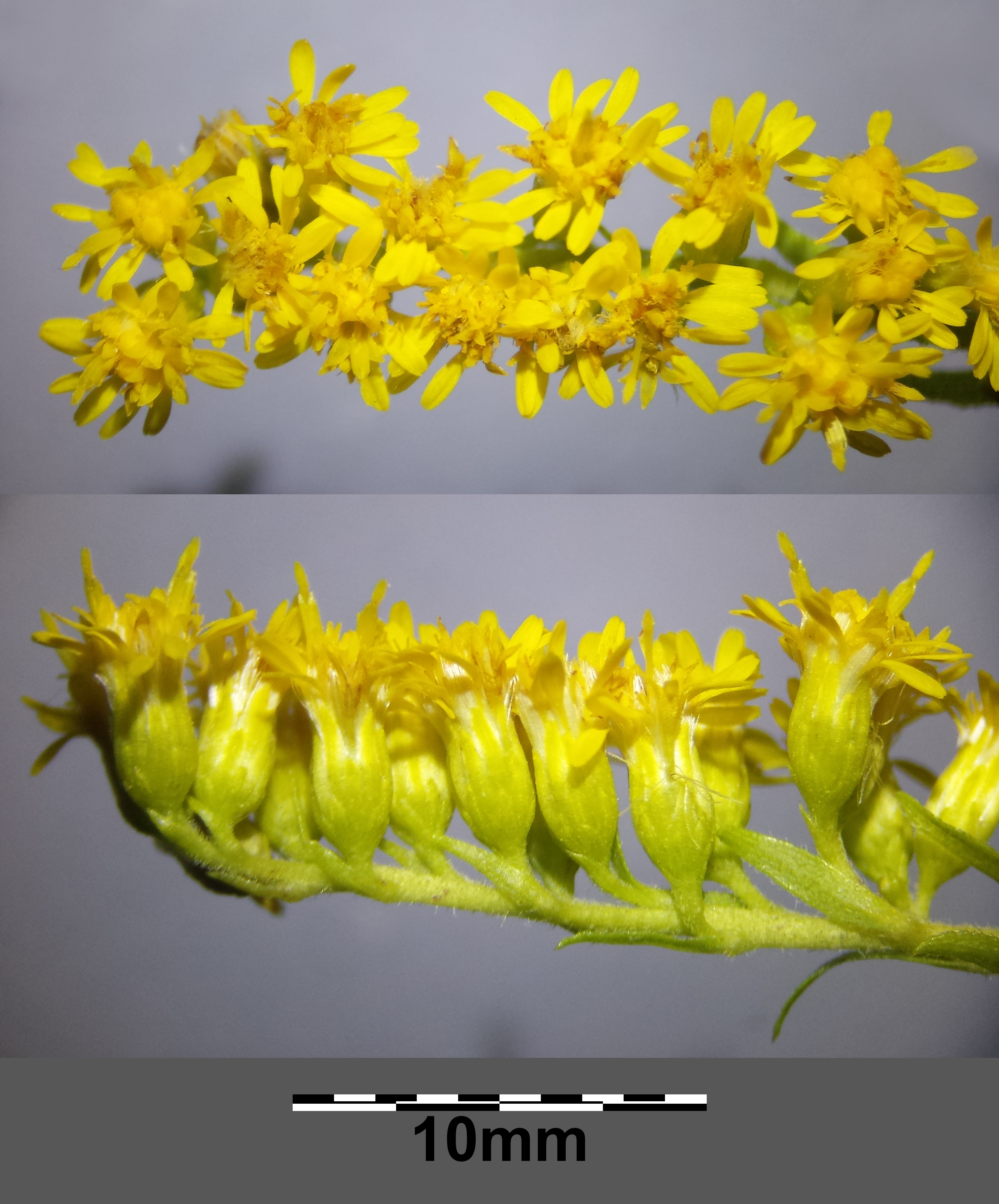 Inflorescence (detail) Taxonym: Solidago gigantea (subsp. serotina) ss Fischer et al. EfÖLS 2008 ISBN 978-3-85474-187-9 Location: Veitsberg/Bisamberg, district Korneuburg, Lower Austria - ca. 320 m a.s.l. Habitat: fallow land